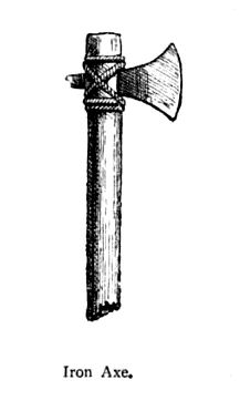 19th century knowledge primitive tools iron axe